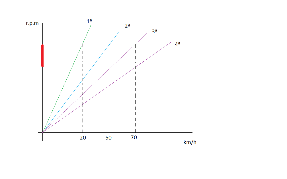 Speed relations